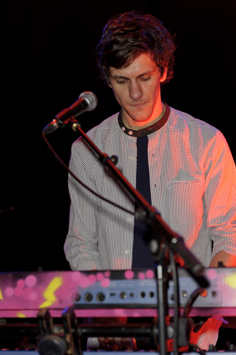 Mathew Baynton at Glasgow Film Festival 2011 - You Instead After Party